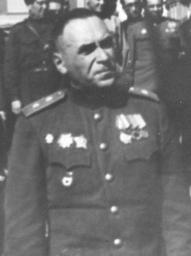 General Vladimir Ždanov in liberated Belgrade, 1944.